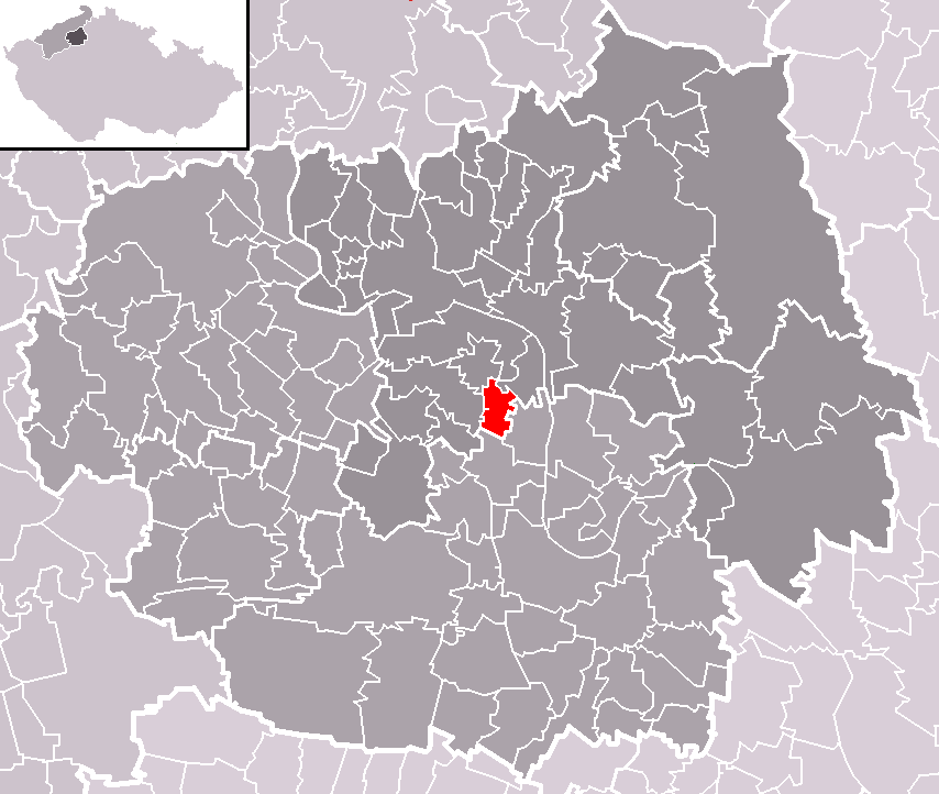 Location of Oleško municipality within Litoměřice District and administrative area of Litoměřice as a Municipality with Extended Competence.